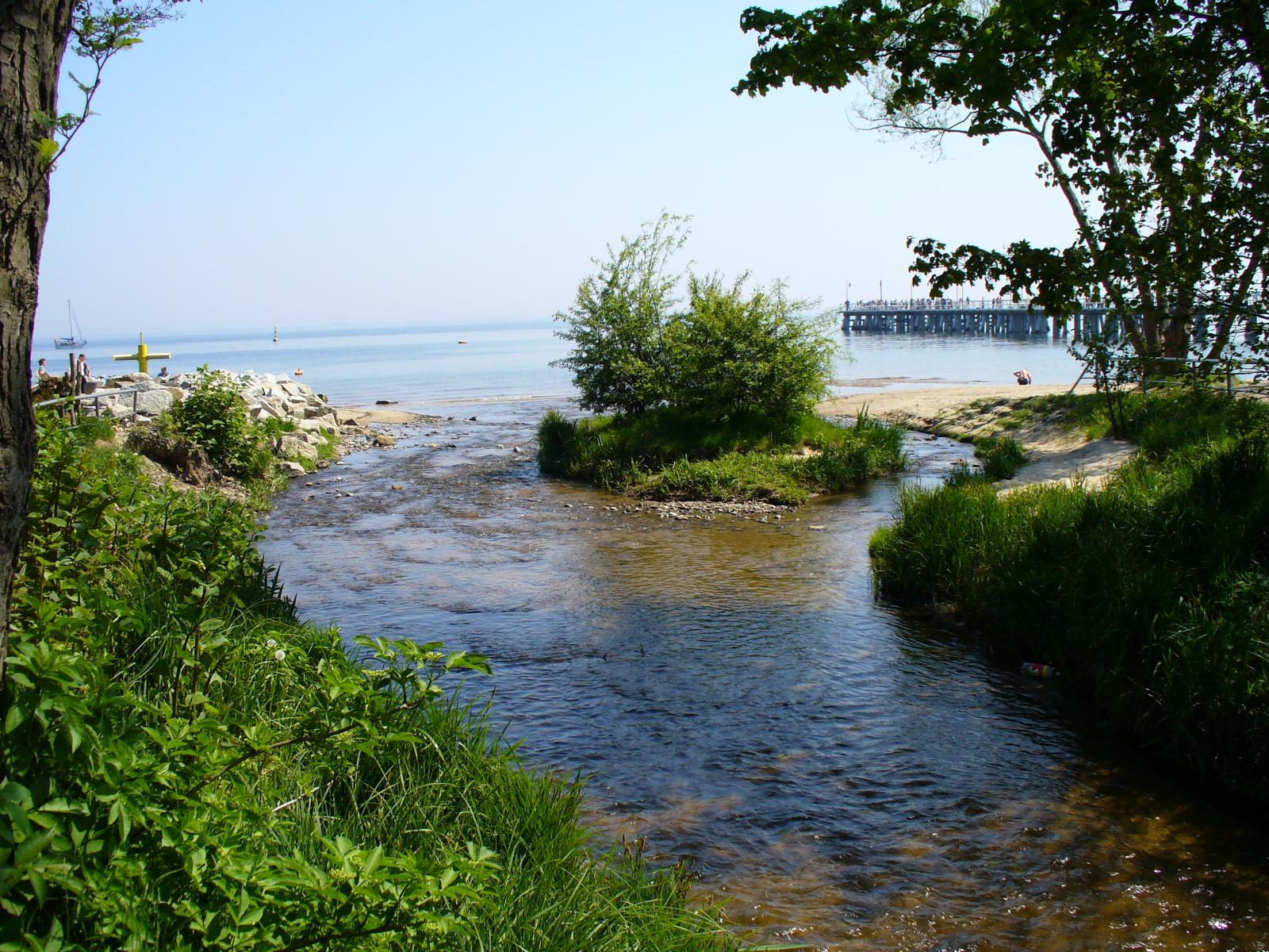 The river mouth Kacza, Gdynia, Poland.